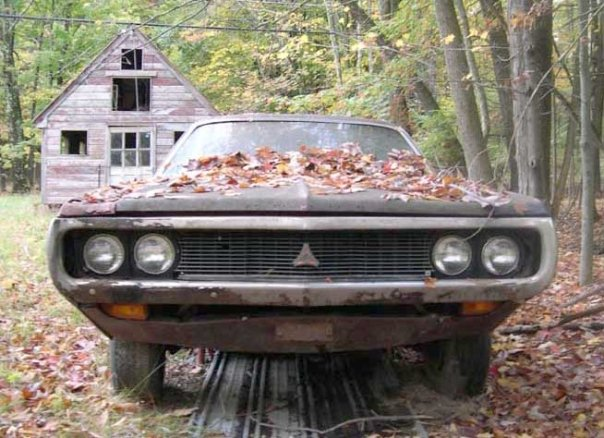 1971 dodge coronet custom, commonly known as the Brown Bomb, currently on sabbatical in Olivebridge, N.Y.